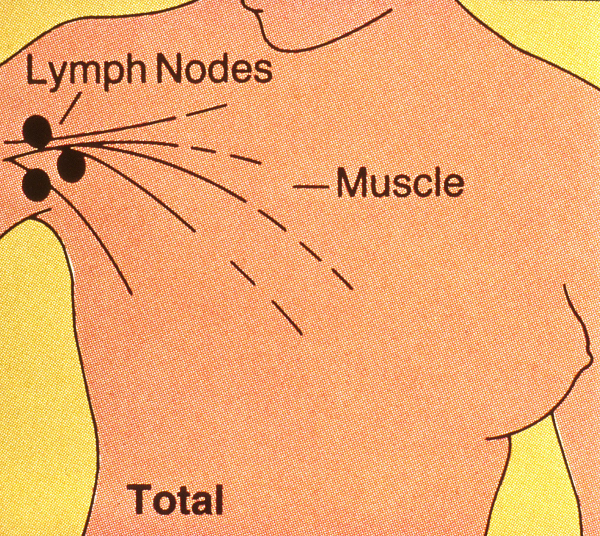 Title Mastectomy (Simple) Description Treatment for breast cancer - removal of breast and a sample of underarm lymph nodes. Topics/Categories Anatomy -- Breast Historical -- Graphics Treatment -- Surgery Type Color, Medical Illustration Source National Cancer Institute